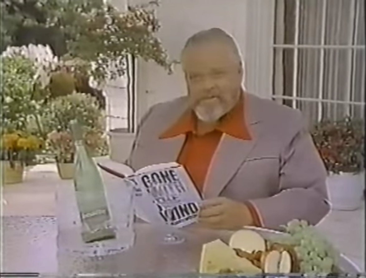 1970s wine advert